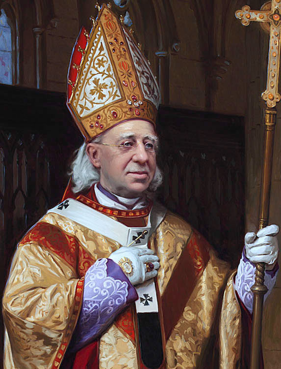 Archbishop John Bede Polding